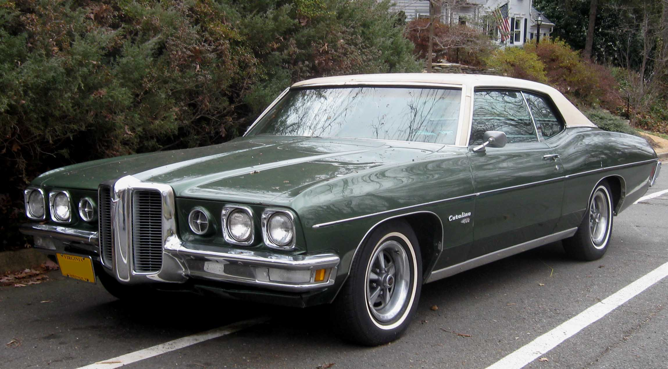 1970 Pontiac Catalina photographed in Alexandria, Virginia, USA.